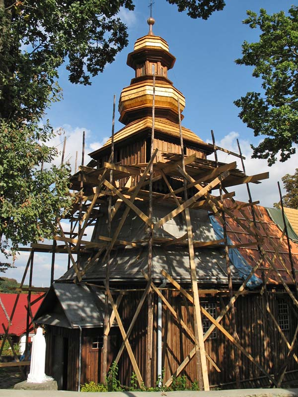 Wietrzno (Poland), wooden church